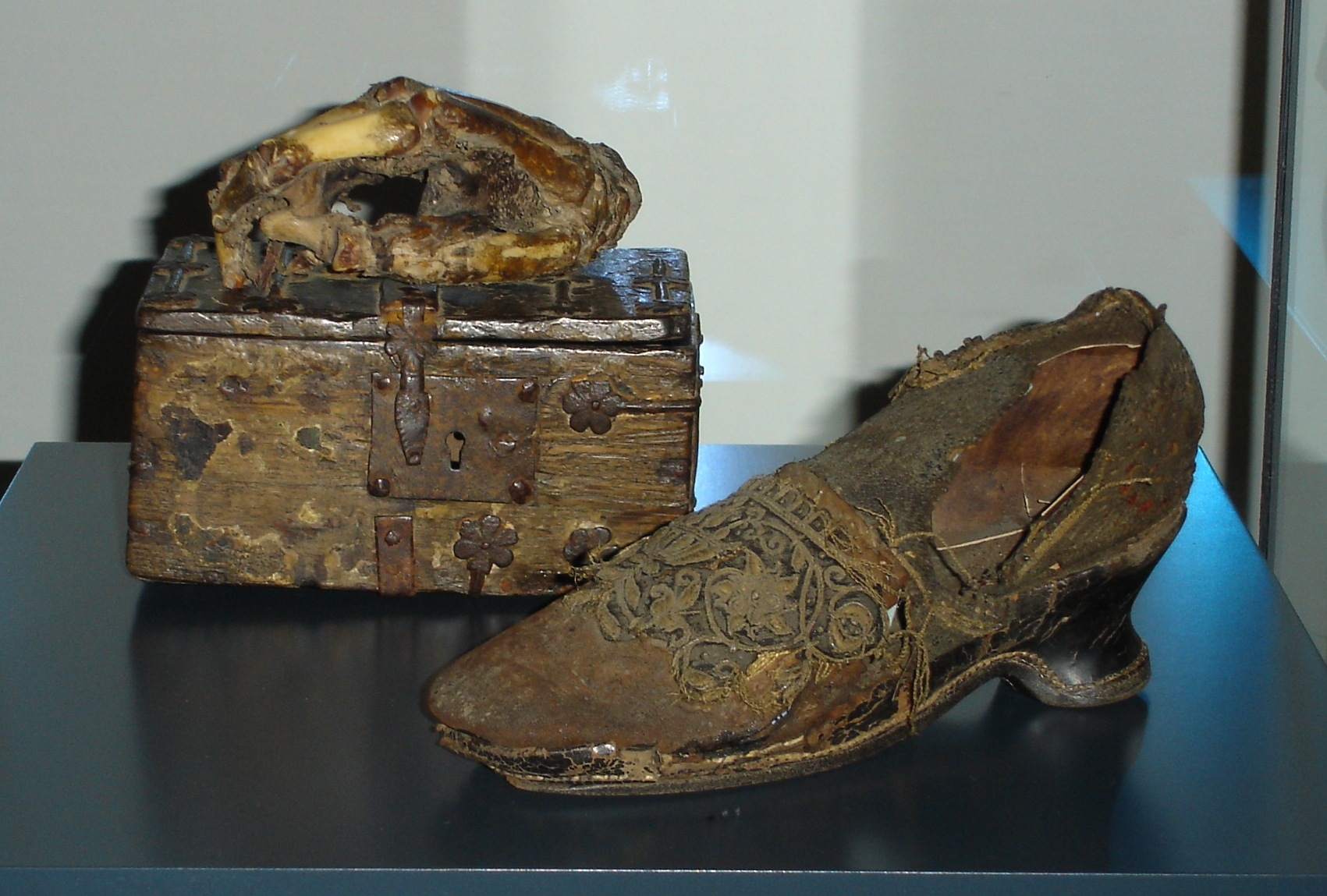 Historical hand and slipper in the historical city hall in Münster, Westphalia, Germany